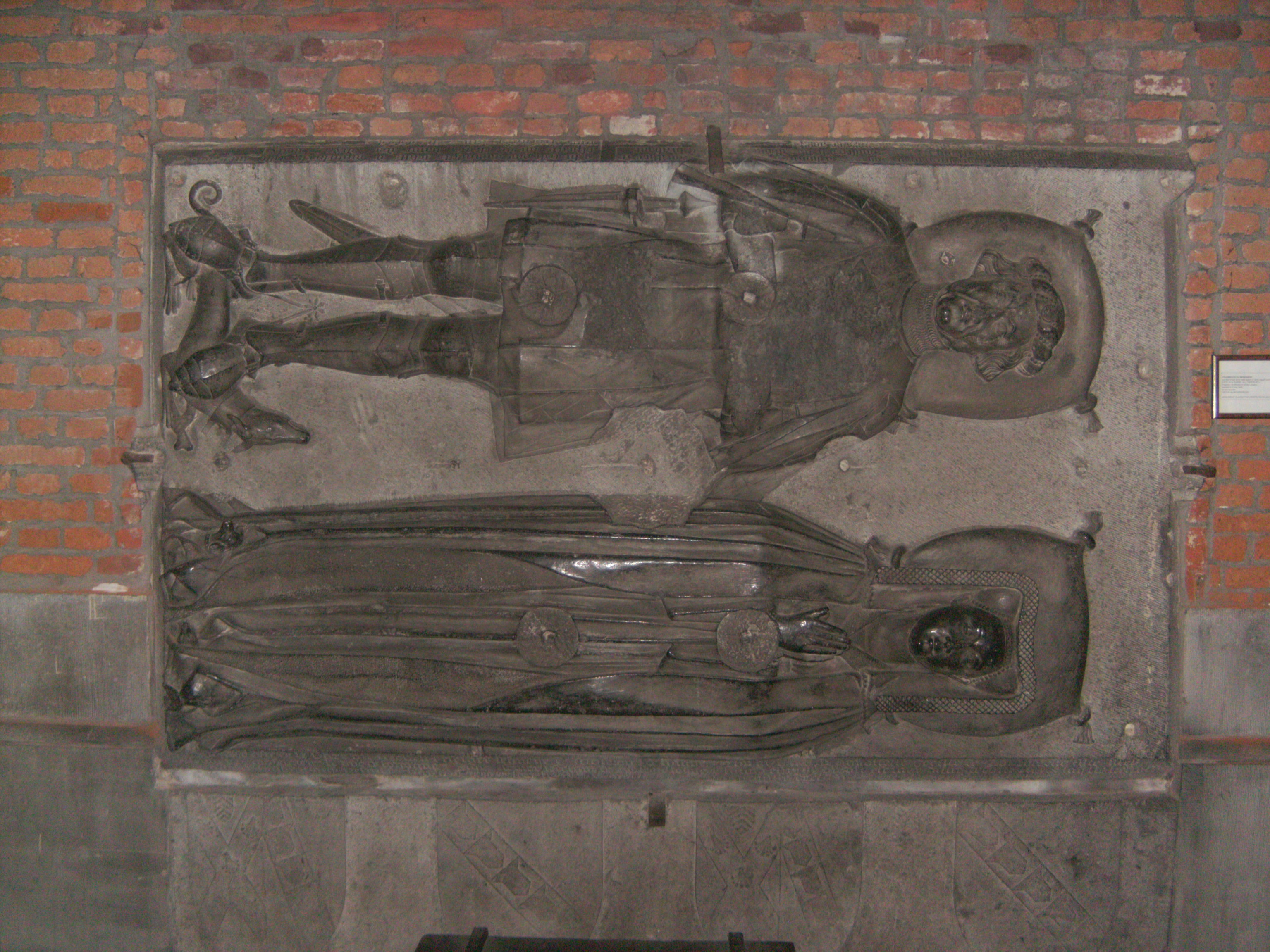 Mouscron (Belgium) - St. Bartholomew's Church : funerary monument to Oste de la Barre, Lord of Mouscron (c. 1380–1446) and his second wife, Cecilia de Mourkercke (c. 1400–1462) - cultural heritage monument since 1976.